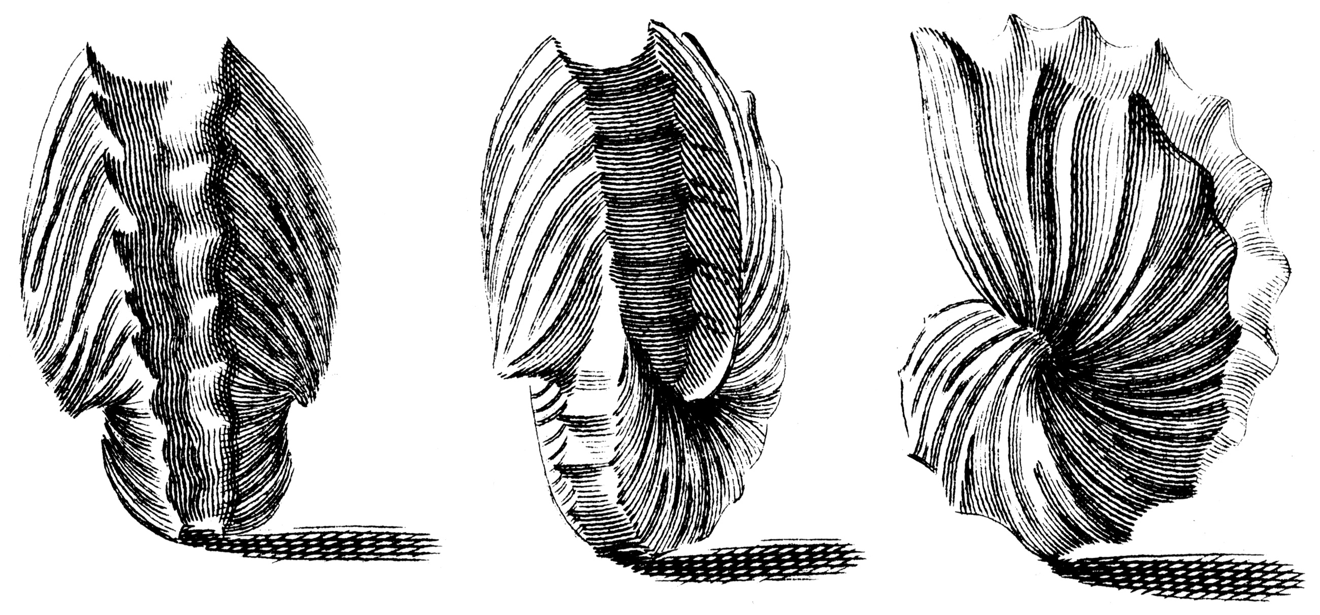 A shell of female pelagic cephalopod Argonauta hians which serves as an eggcase. A drawing by Niccolò Gualtieri (1742).